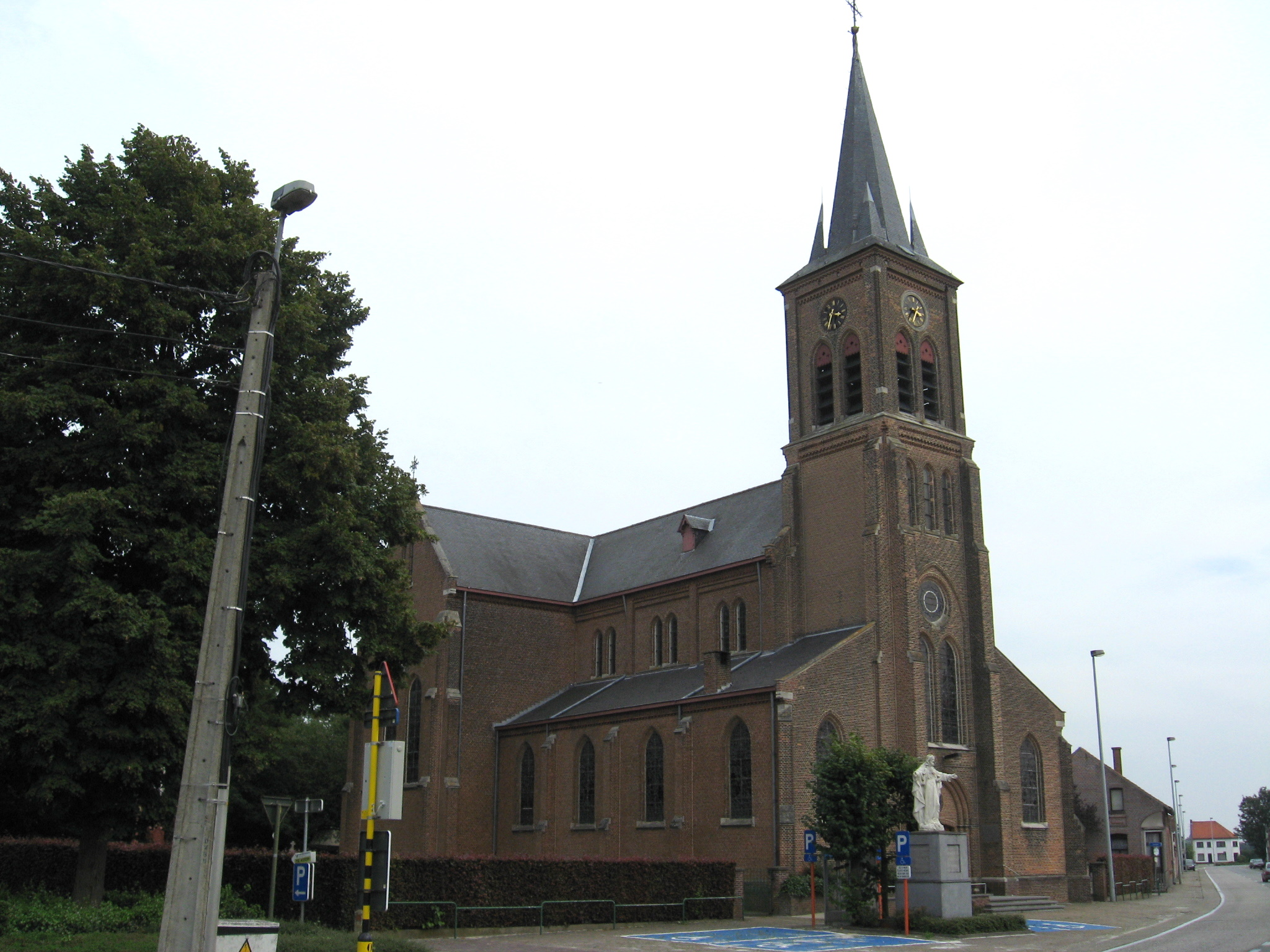 Church of the Blessed Mary in Gestel, Meerhout, Antwerp, Belgium